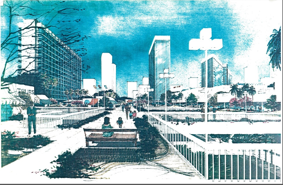 Lagoon City Architectural_Image_2